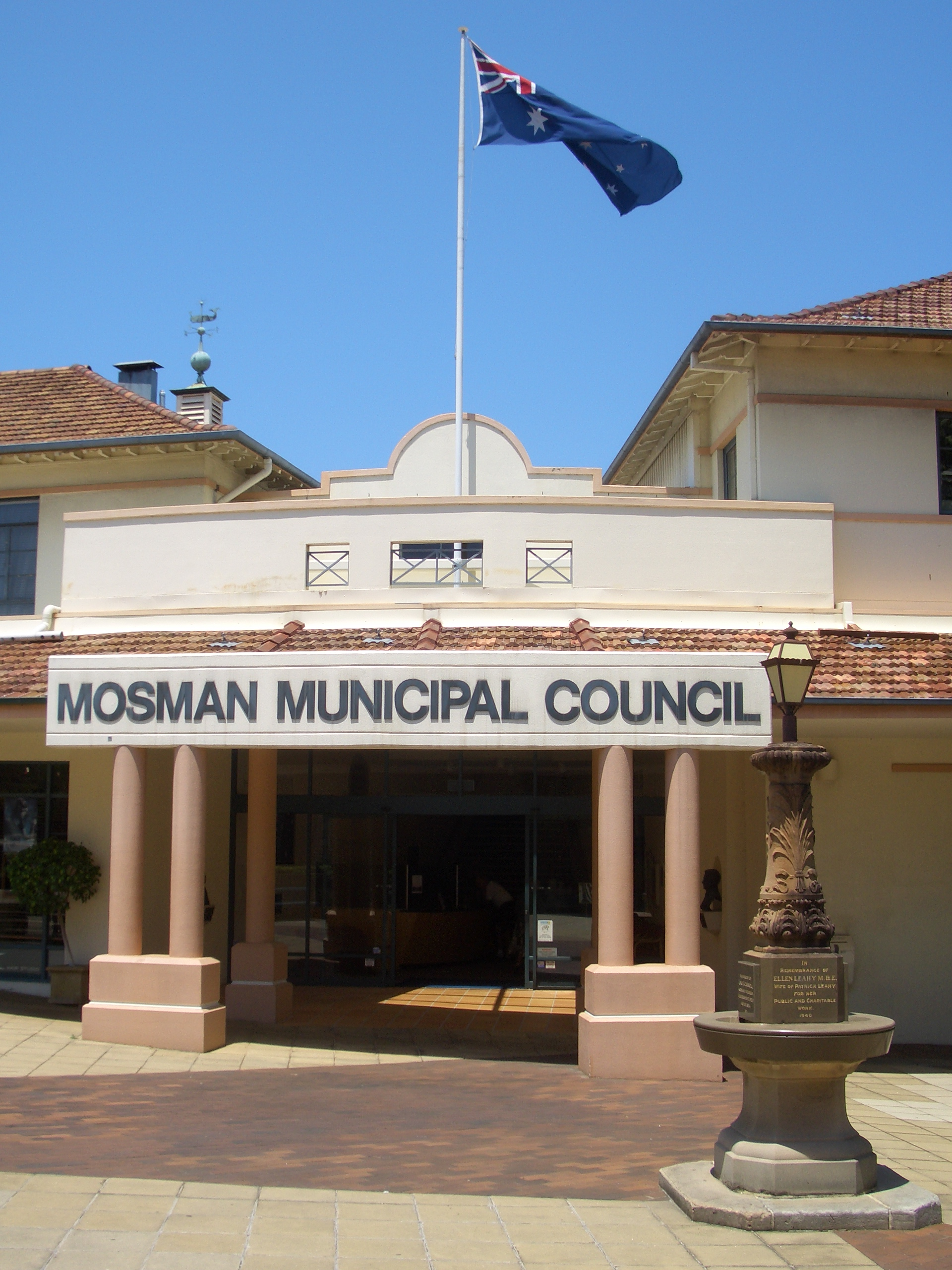 Mosman Municipal Council, Mosman, New South Wales